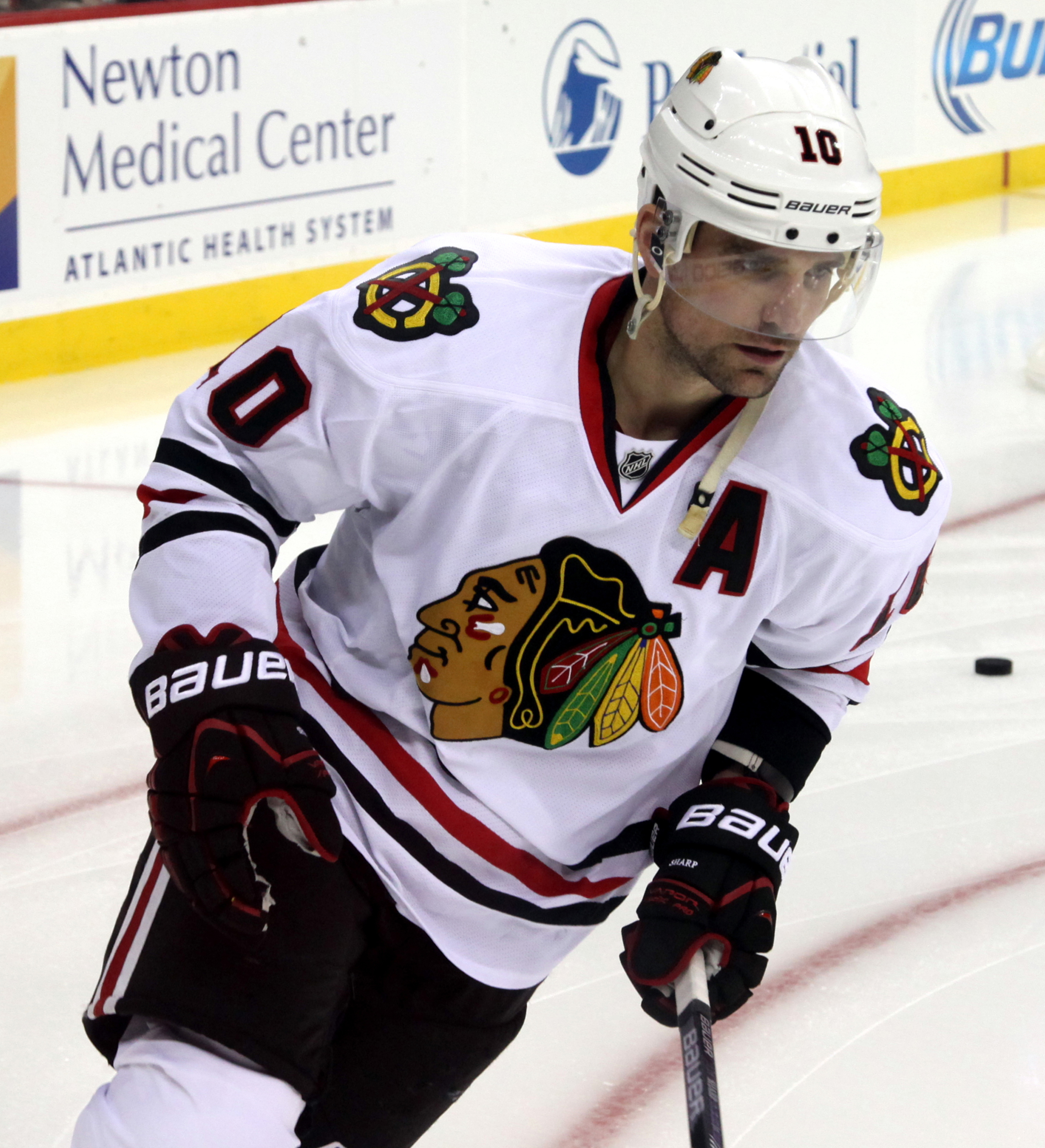 Patrick Sharp in December 2014.